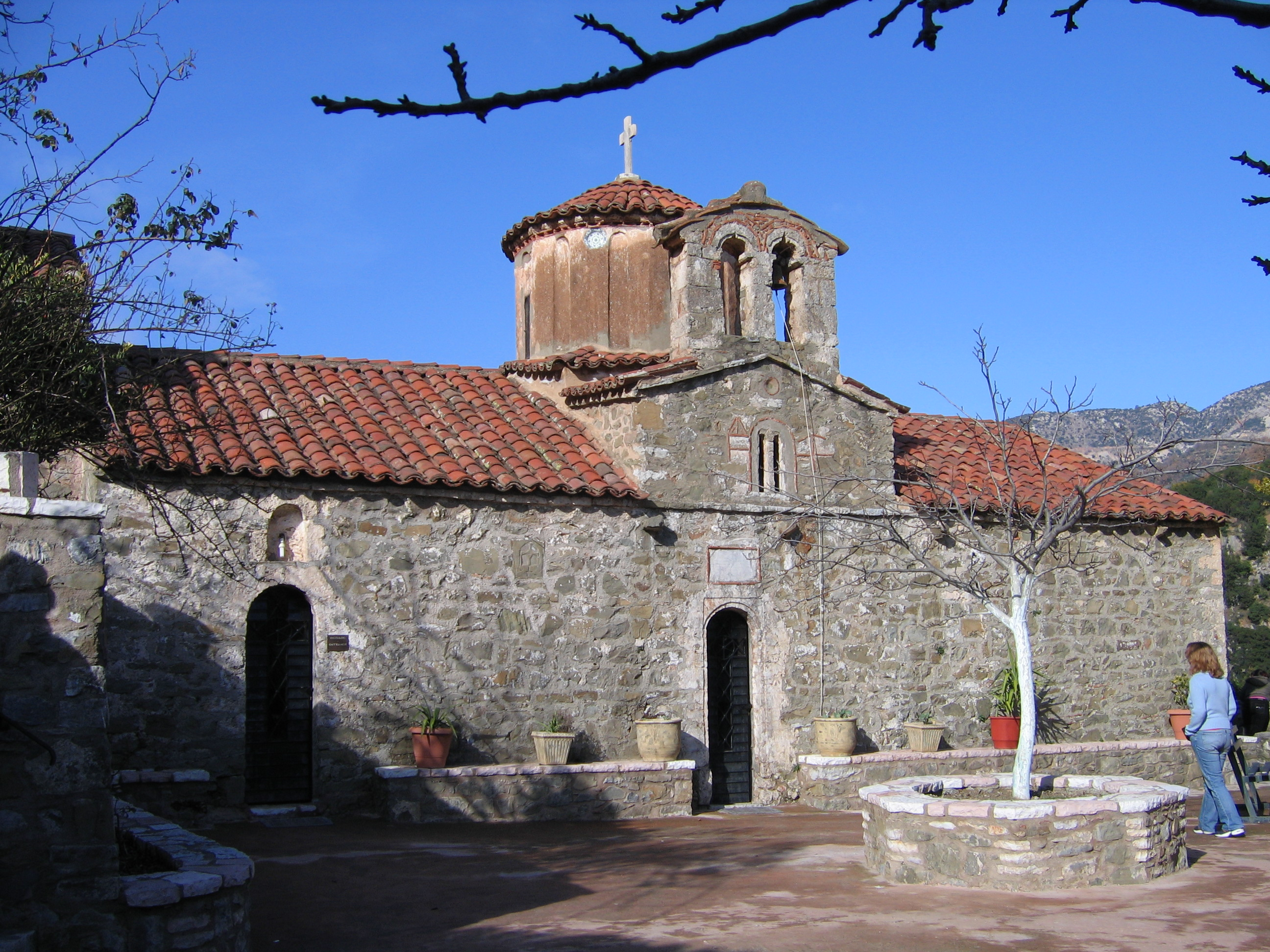 The church of the later Filosofou monastery.